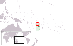 Location map for Rotuma within Fiji.